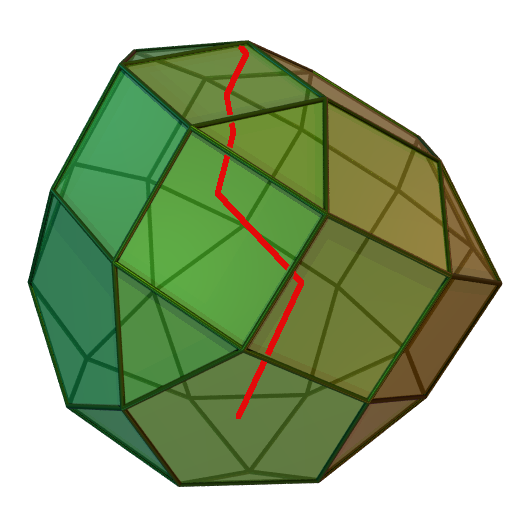 Shows a linear programming polytope together with a possible path taken by an interior-point method to solve the corresponding LP.